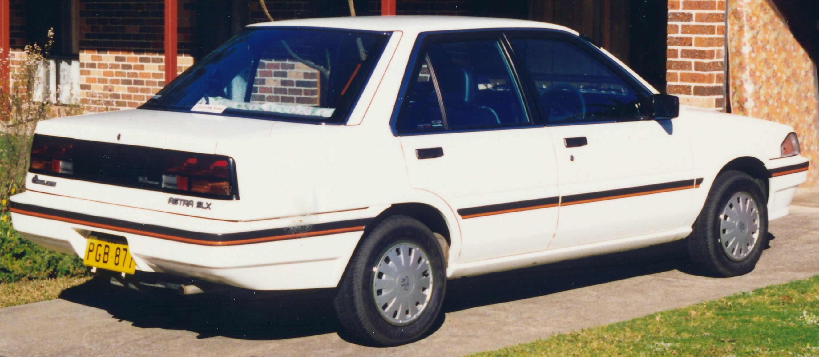 This image is a scan of a 35mm print taken by my Dad of his Holden Astra